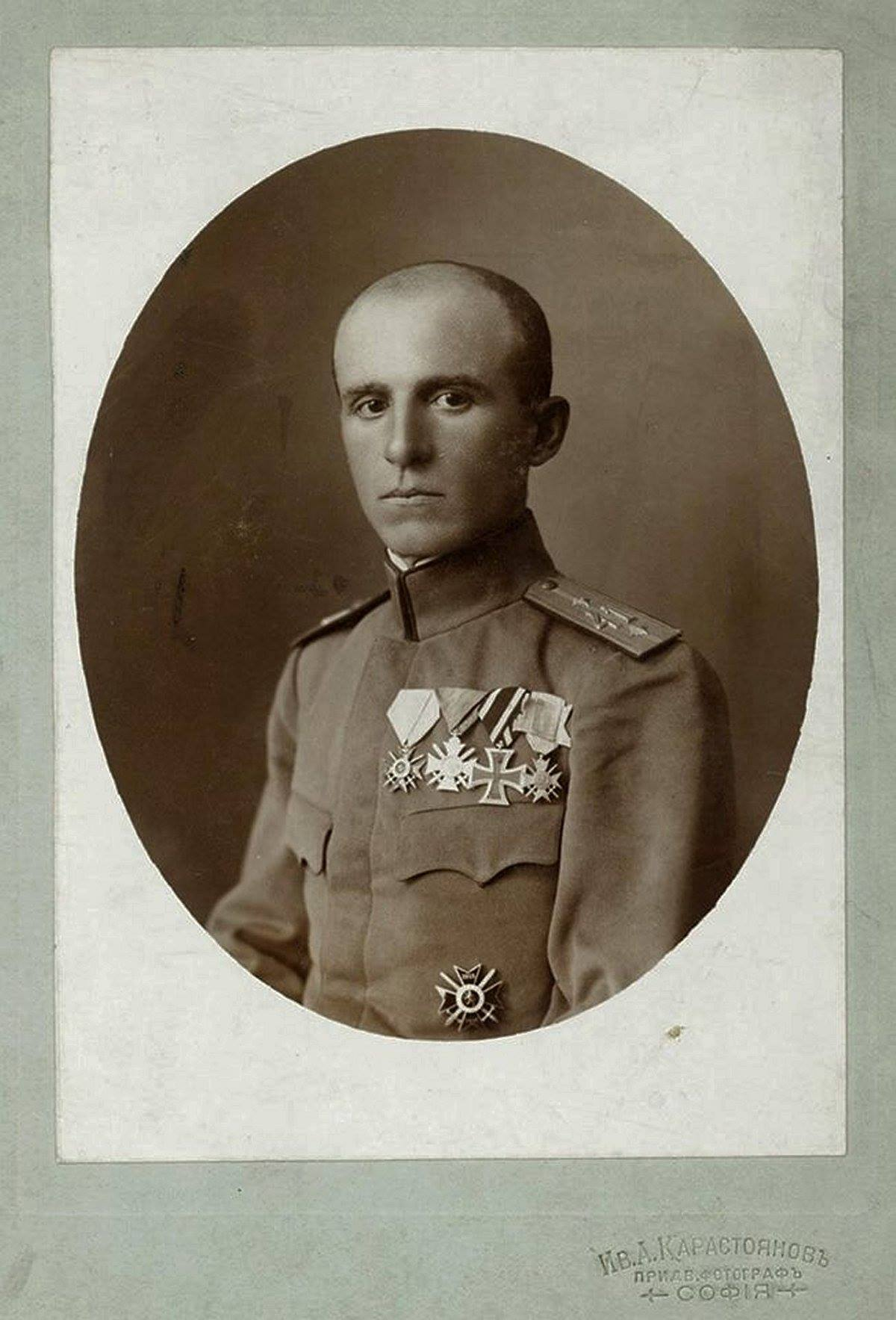 Professor Petar Mutafchiev as сenior lieutenant from 41th Infantry Regiment during WWI